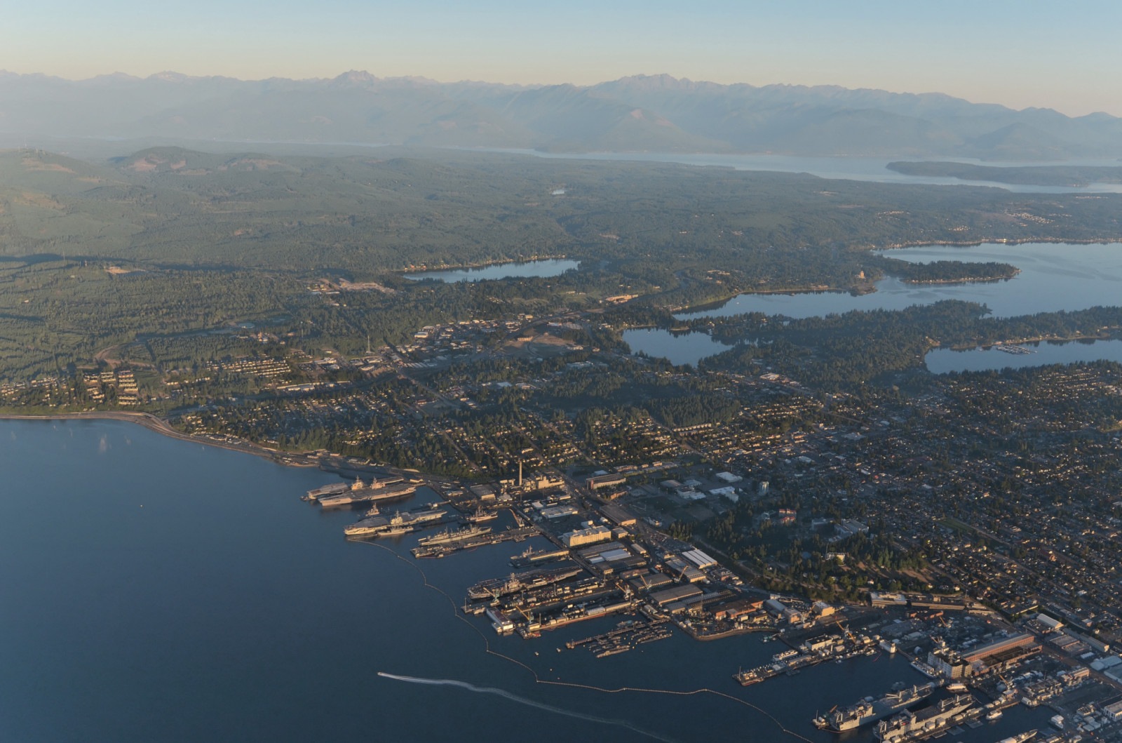 Puget Sound Naval Shipyard and Intermediate Maintenance Facility, Bremerton WA